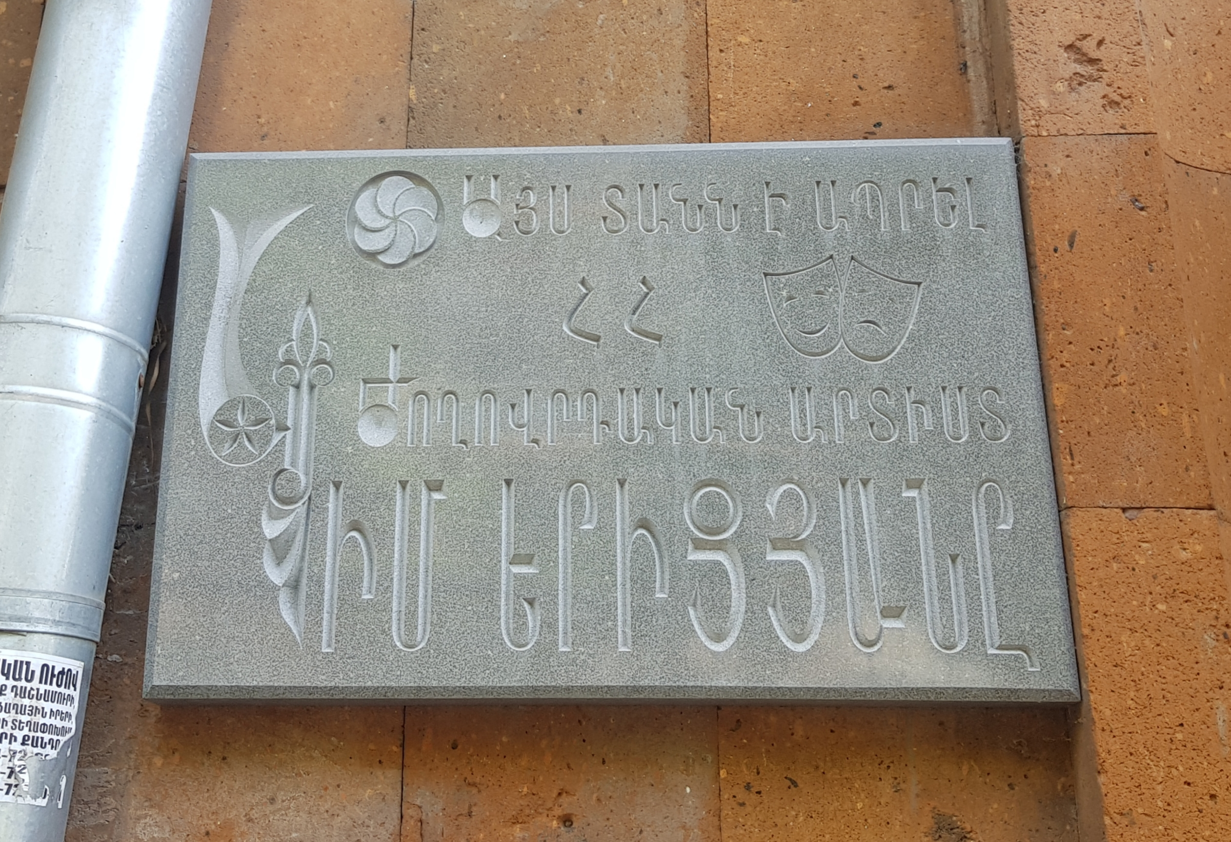 Kim Yeritsyan's plaque